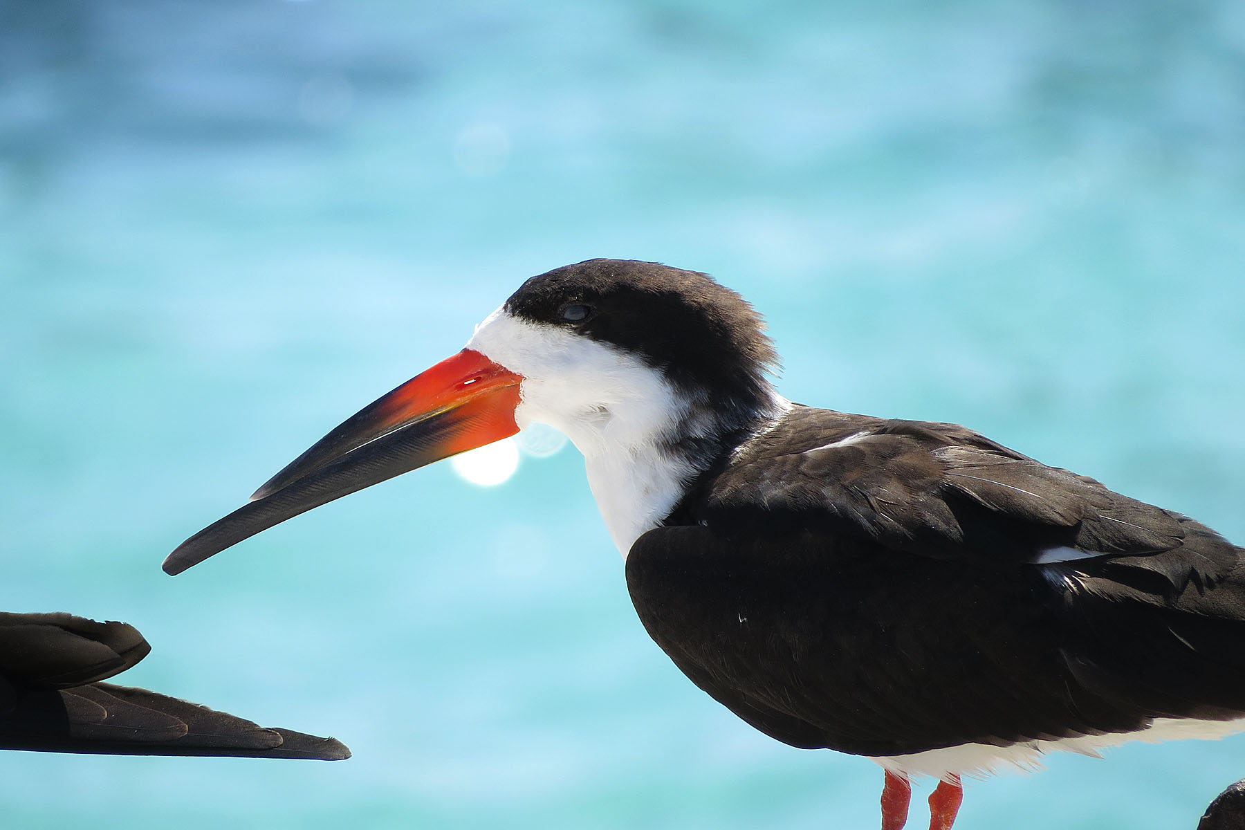 A Black Skimmer at Dry Tortugas National Park, Florida, USA.